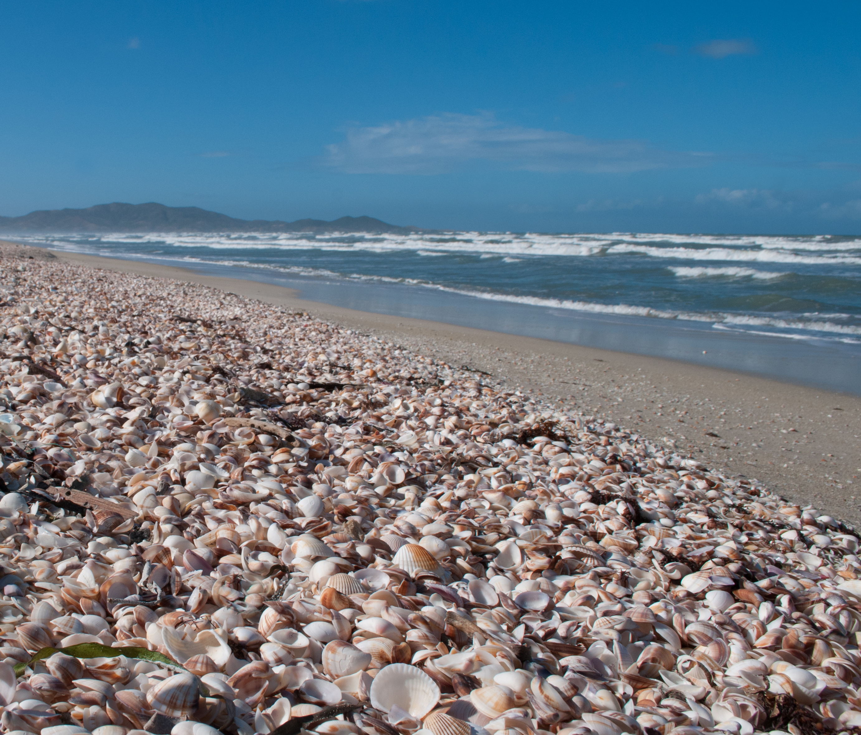 La Restinga Beach